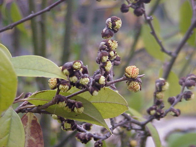 Species: Sycopsis sinensis Family: Hamamelidaceae Image No. 2